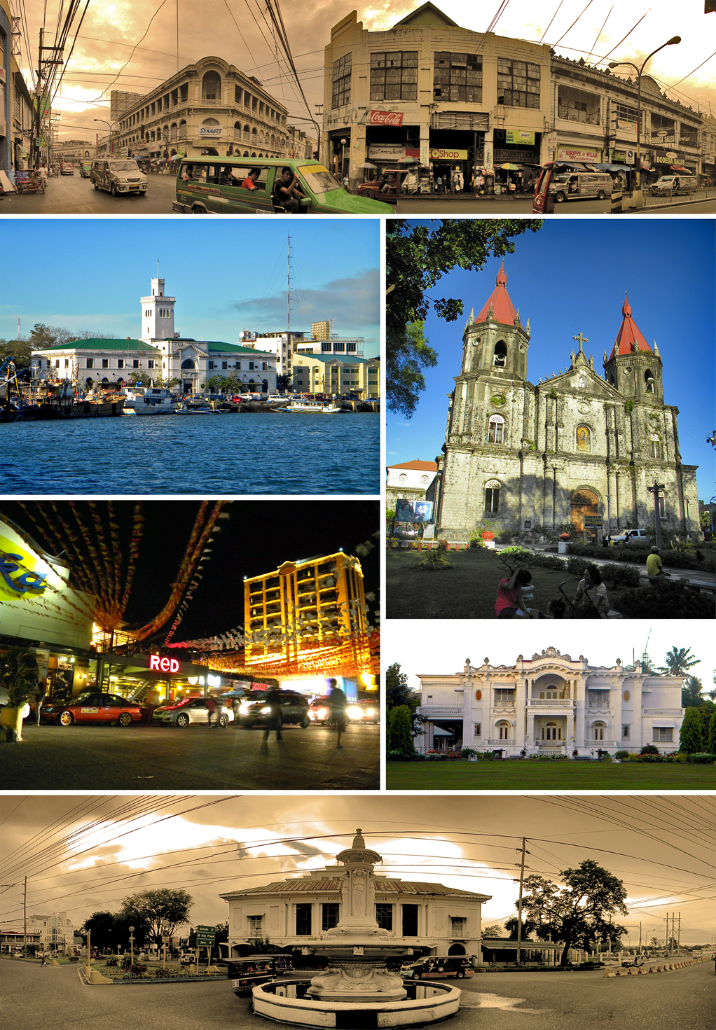 From top, left to right: Calle Real - Iloilo City's historic center, The Aduana/Customs House of Iloilo and Muelle Loney, Saint Anne Church of Molo District, Smallville Commercial Complex in Mandurriao District, Nelly Garden, and the Arroyo Fountain and Casa Real/Old Iloilo Provincial Capitol